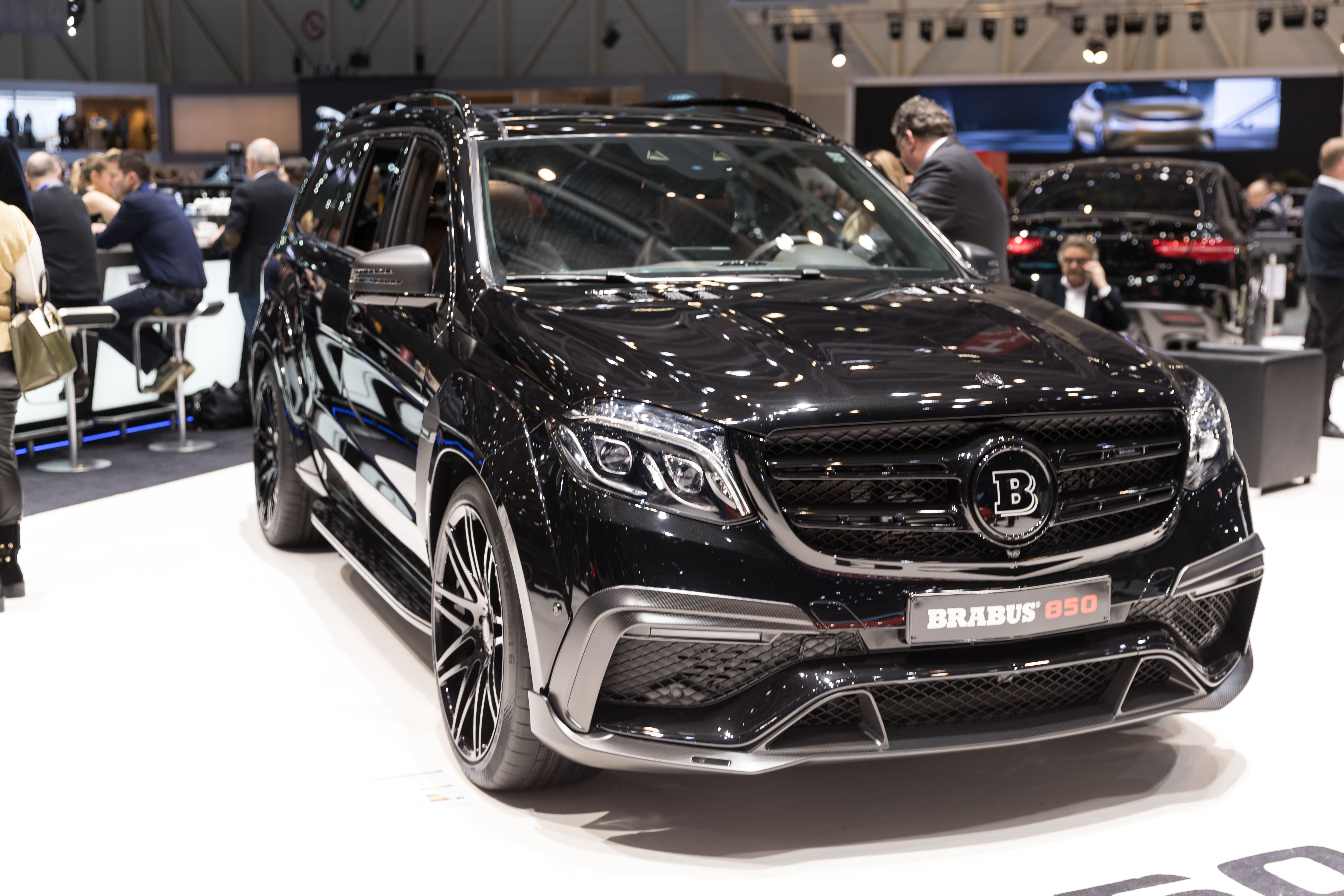 Geneva International Motor Show 2018